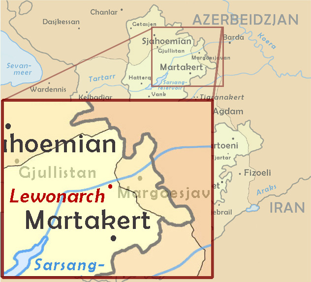 Location of the village Levonarkh